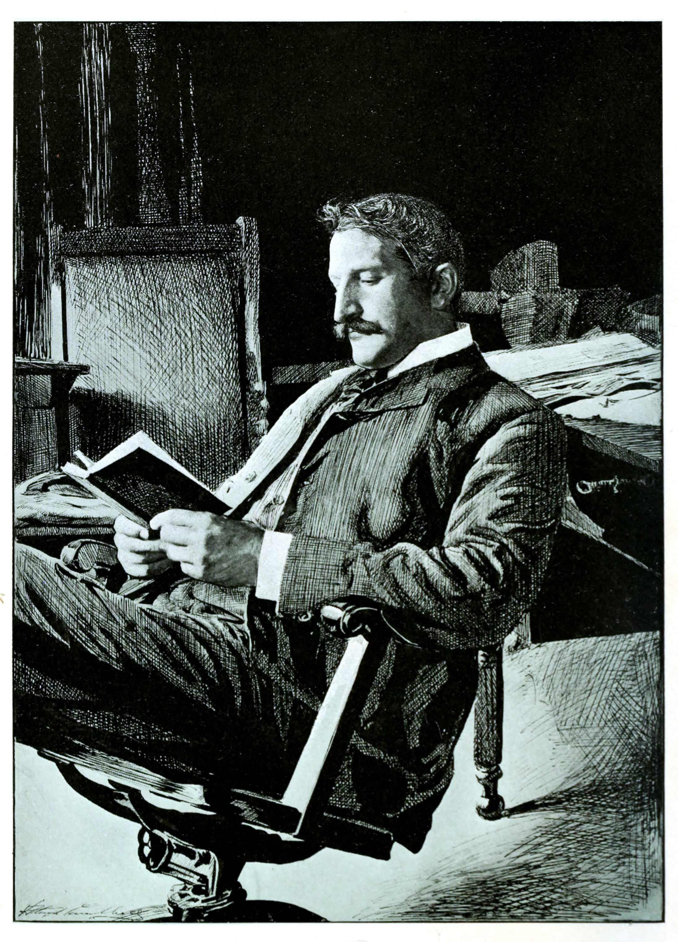 Portrait of Frank Nelson Doubleday by V. Floyd Campbell